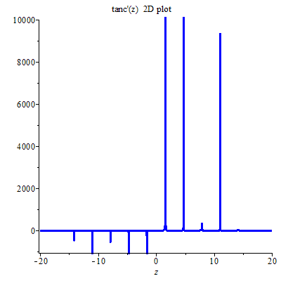 Tanc'(z) 2D plot